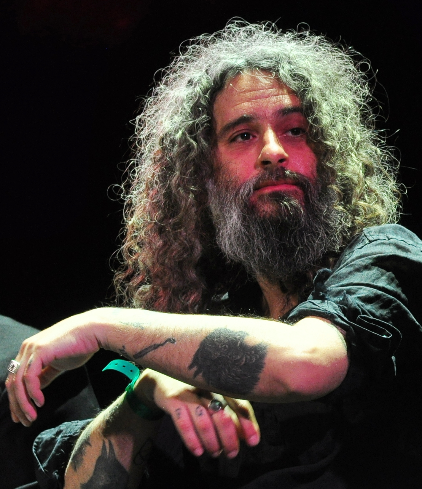 Efrim Manuel Manuck on the keynote panel, "Going Up Yonder: How Music Makers and Writers Confront Loss and Grief", Pop Conference 2019, MoPOP, Seattle Center, Seattle, Washington.